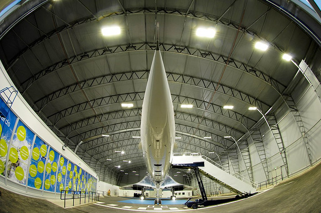 Another image of Concorde Alpha Charlie and Eluma at Manchester Airport. More information can be found on Flickr here